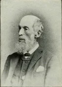 Illustration in History of Iowa From the Earliest Times to the Beginning of the Twentieth Century